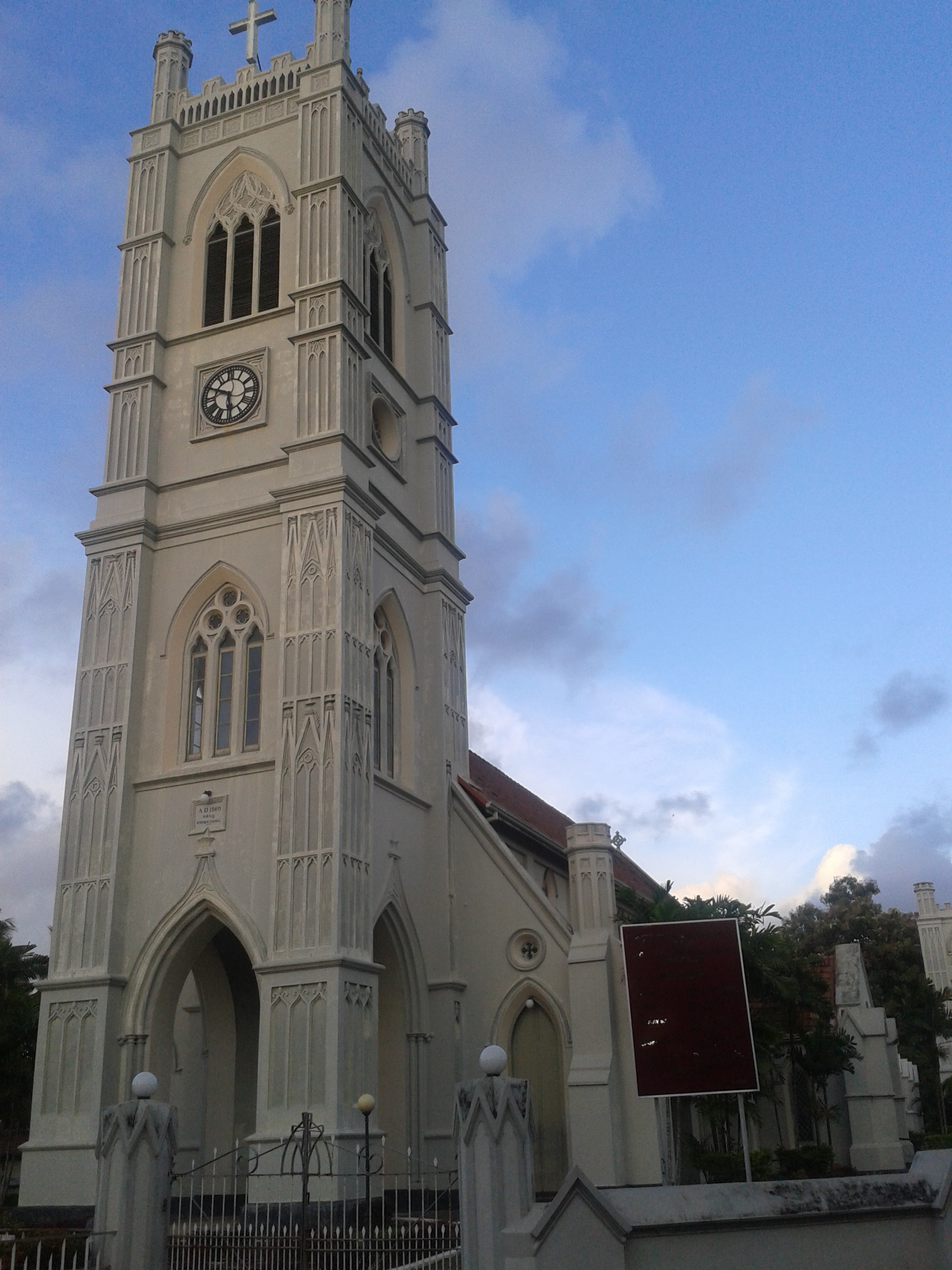 Built in 1860, one of the oldest Anglican Churches in Sri Lanka